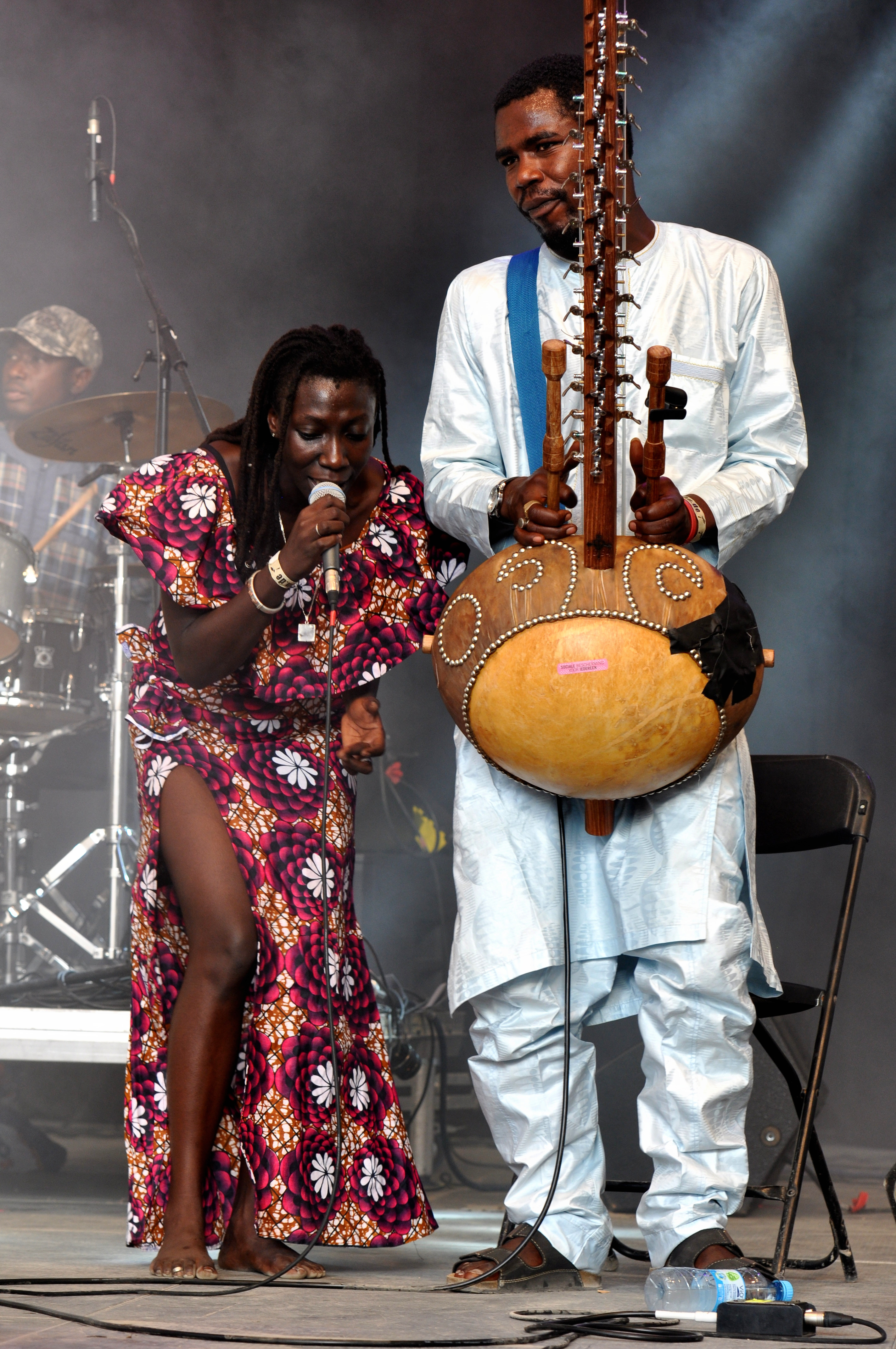 Mariama Kouyaté (SEN), World Music Festival Horizonte 2015, Fortress Ehrenbreitstein, Koblenz, Rhineland-Palatinate, Germany Festivalsommer This photo was created with the support of donations to Wikimedia Deutschland in the context of the CPB project "Festival Summer".